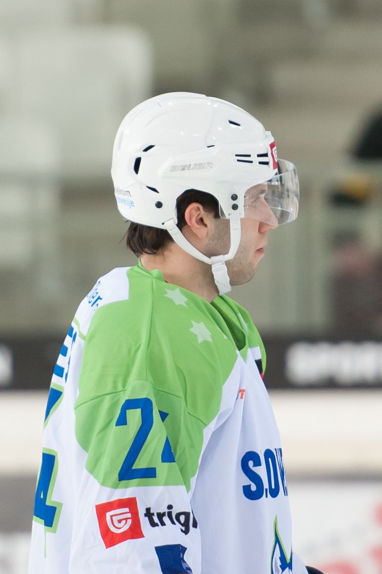 Euro Ice Hockey Challenge Vienna, February 7, 2015, Italy vs. Slovenia